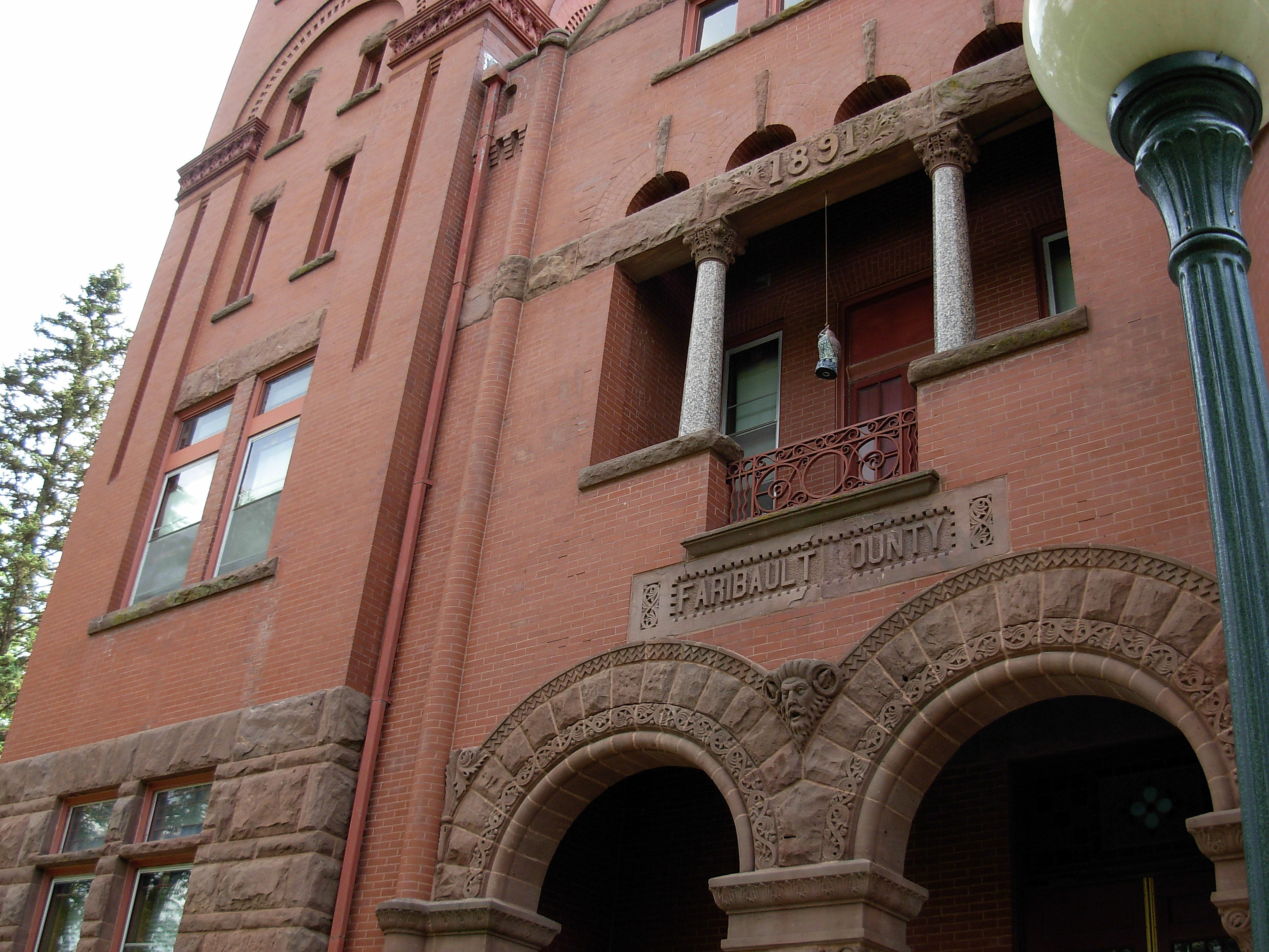 Faribault County Courthouse in Blue Earth, Minnesota